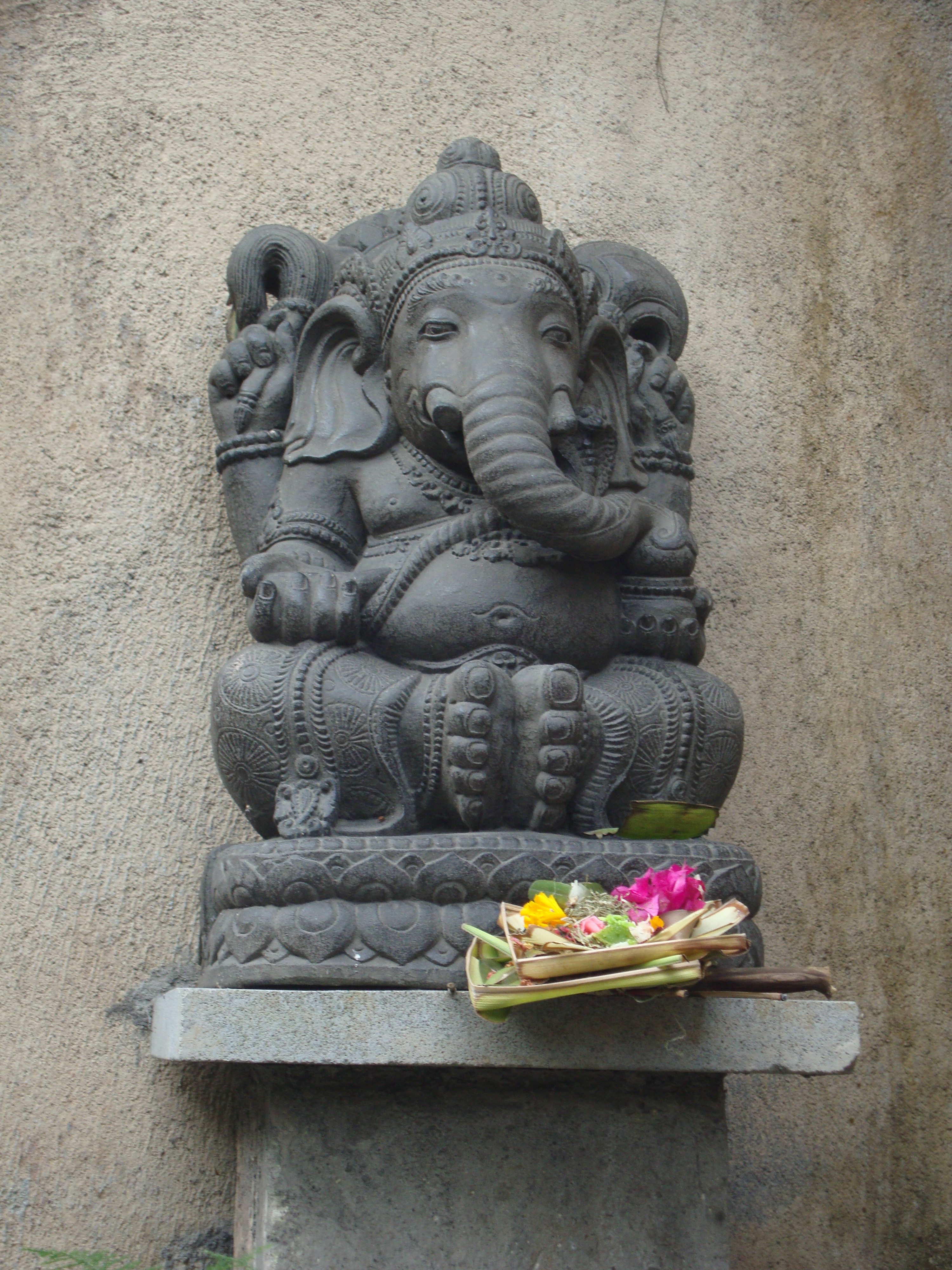 Puja offerings - food and flowers, on top is a burning incense stick Hinduism in Bali Indonesia